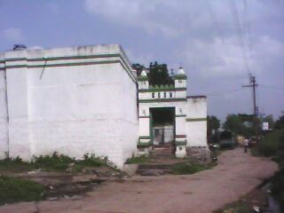 Jama Masjid Kali